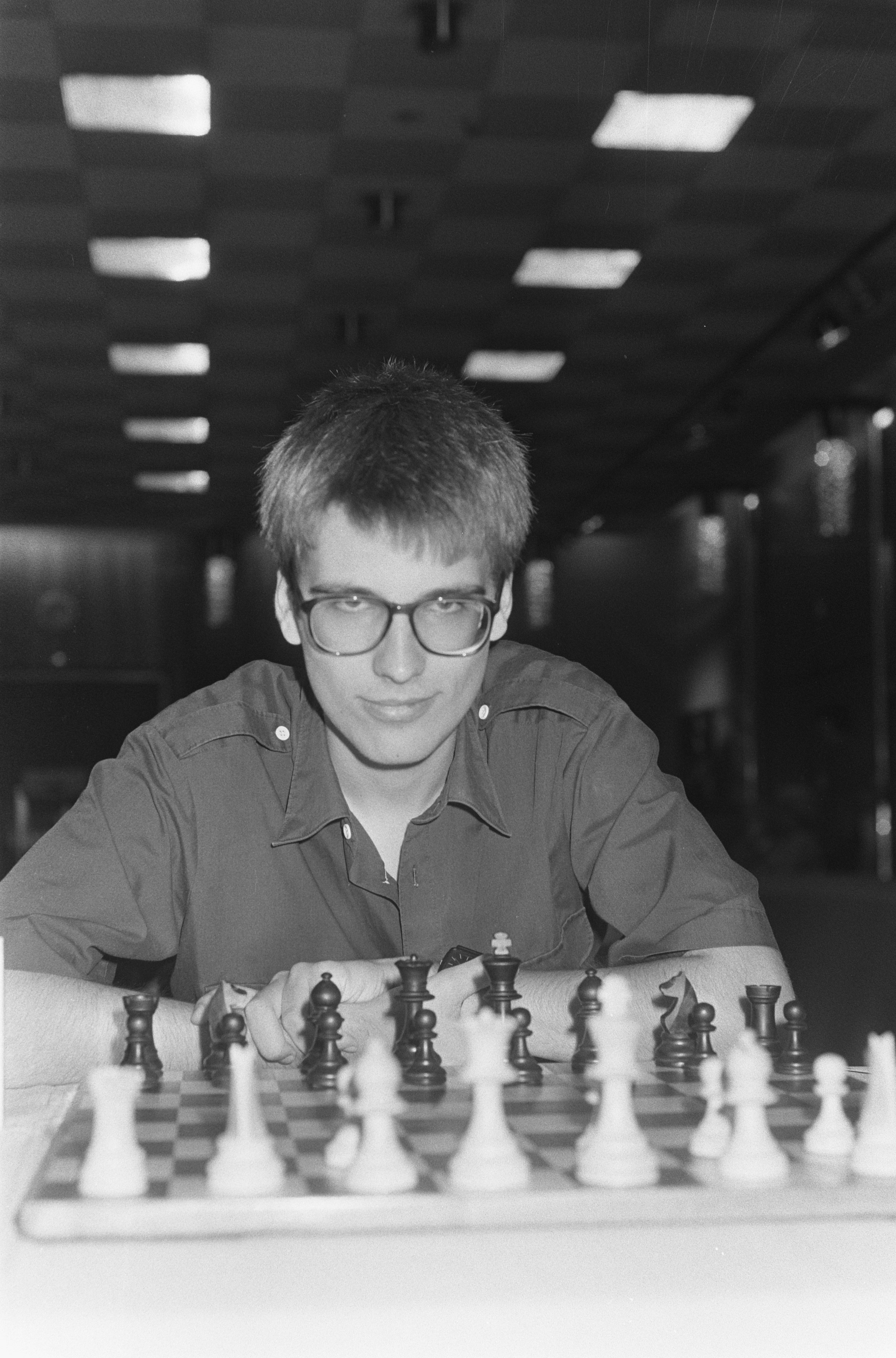 Erik Gustaaf Ferdinand Hellers, during OHRA international chess tournament 1986.